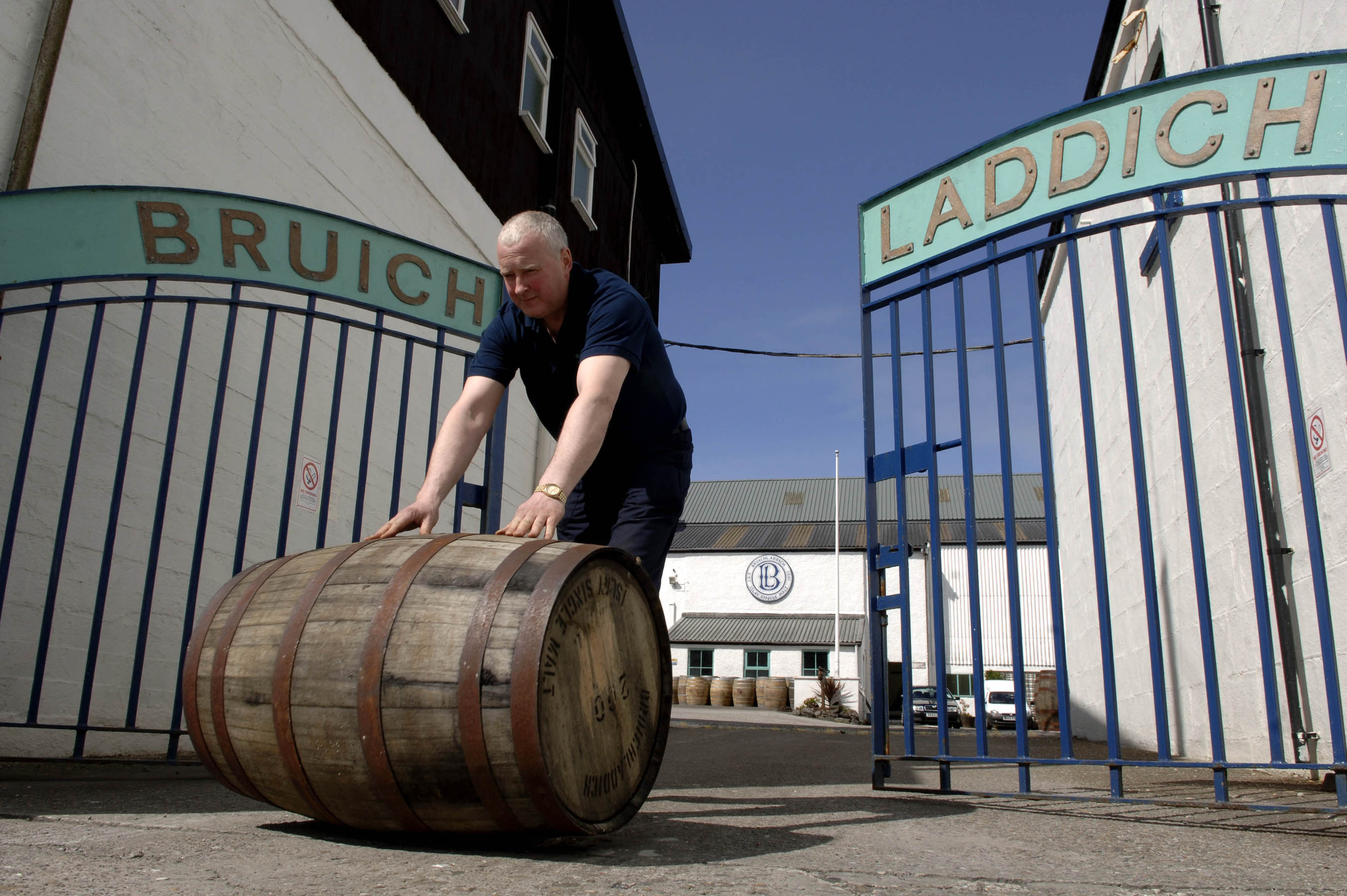 Bruichladdich Distillery Gates